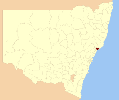 Location of Port Stephens LGA in New South Wales